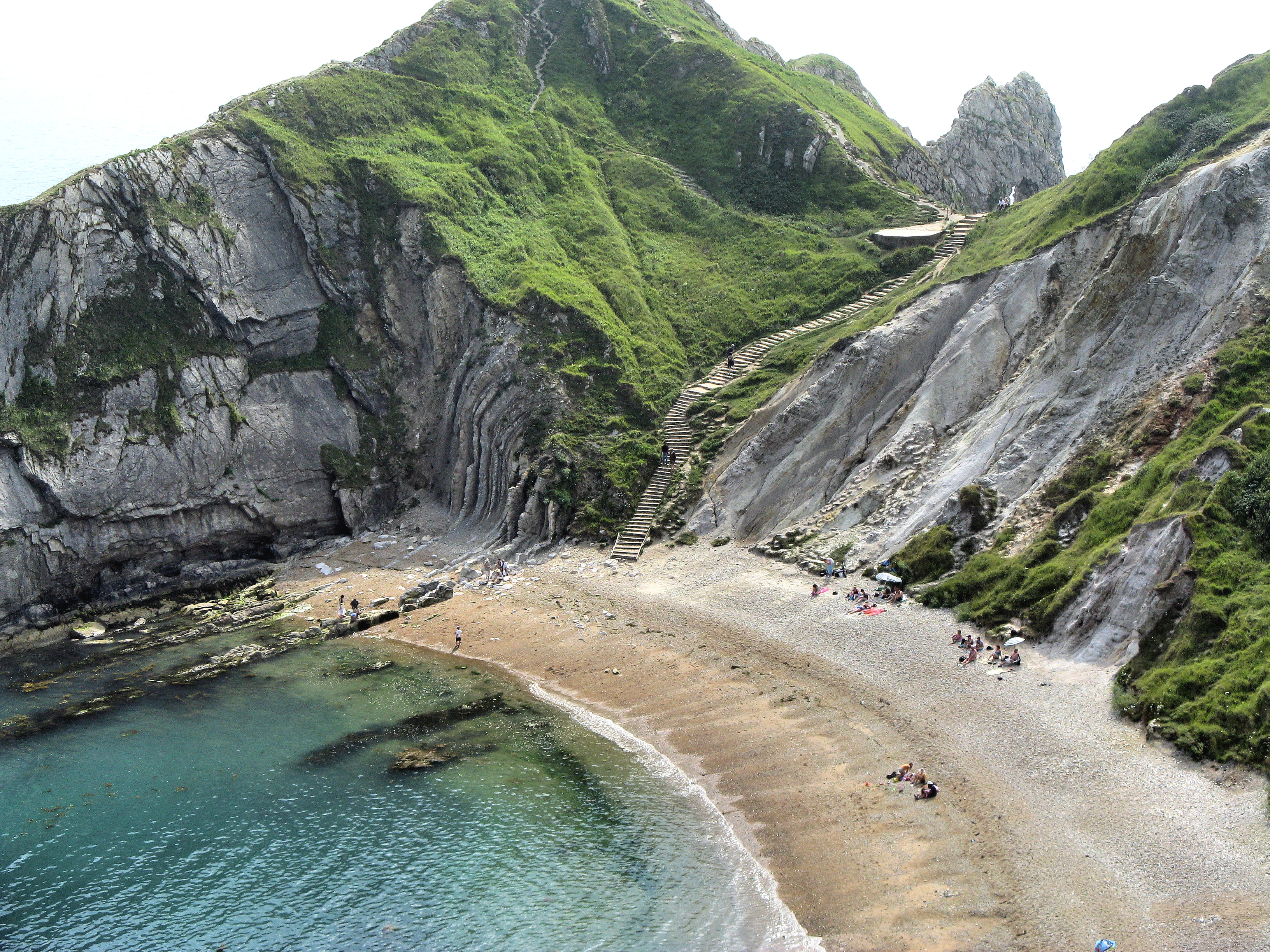 Steps down to Man O’War Cove, Dorset, England, from the cliffs above. This cove is a few miles west of the better known Lulworth Cove. Durdle Door rock arch can be seen at the top of the steps.